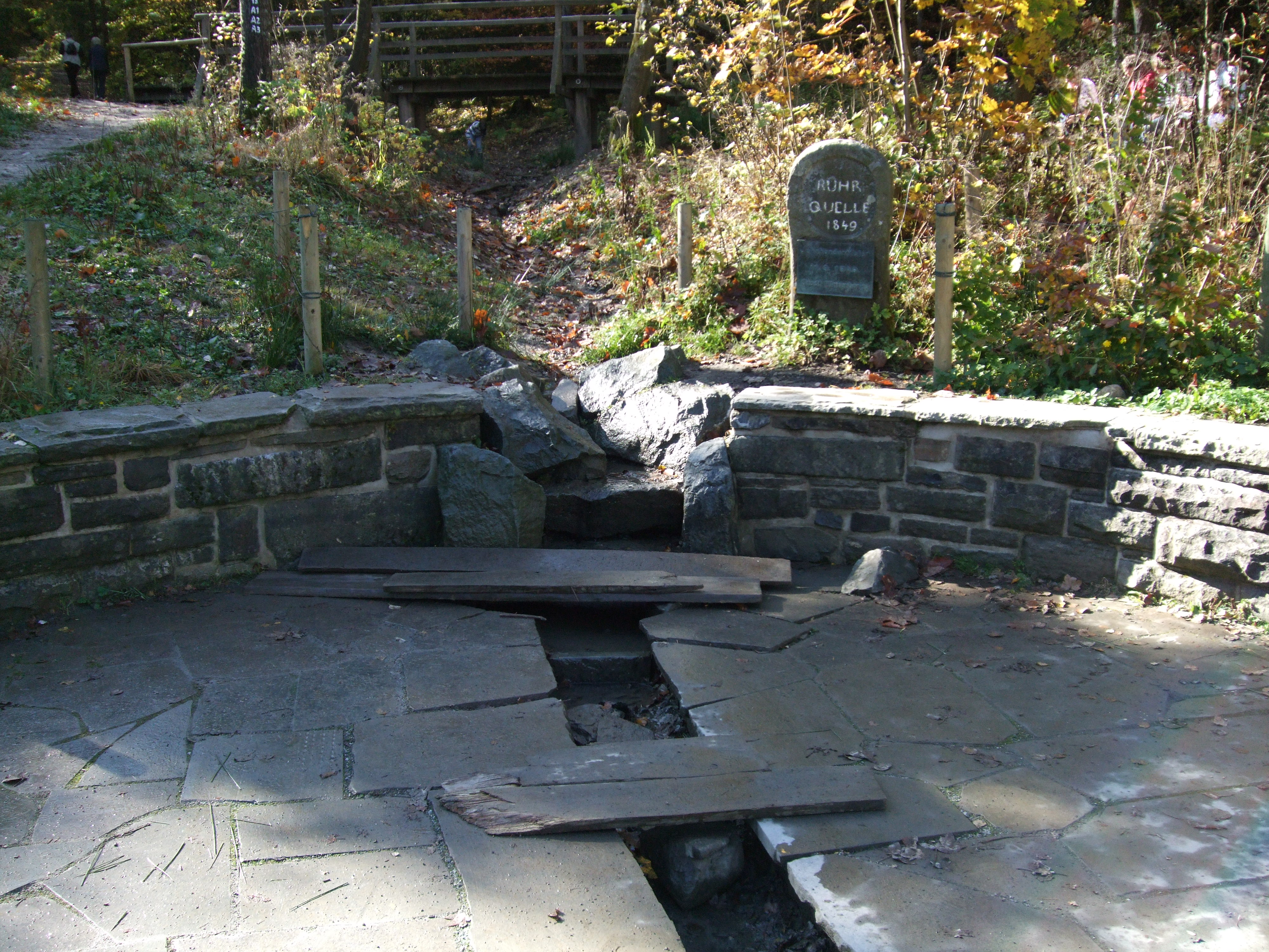 Ruhrquelle - river Ruhr